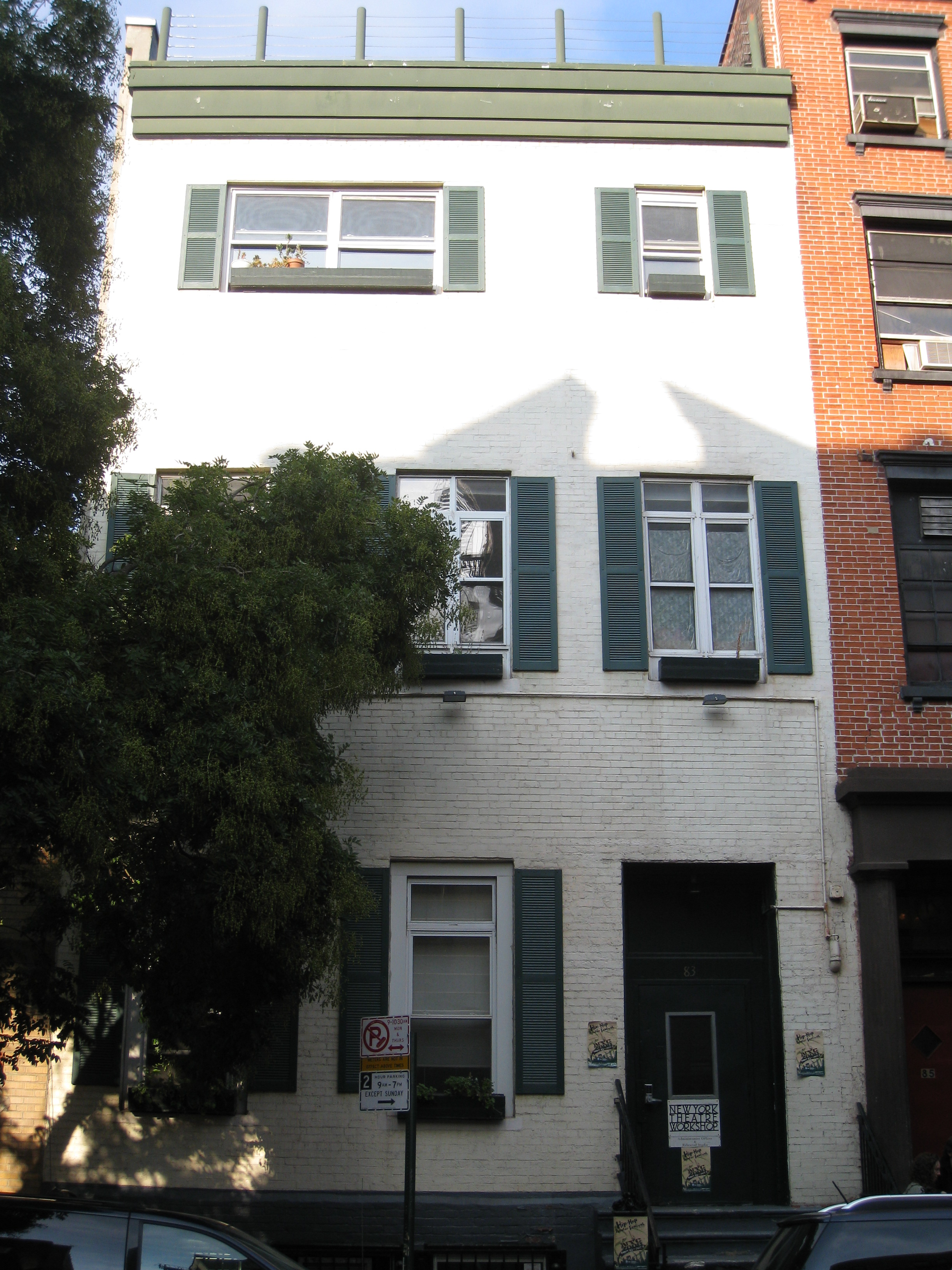 This photo is of Wikis Take Manhattan goal code F9, New York Theatre Workshop.